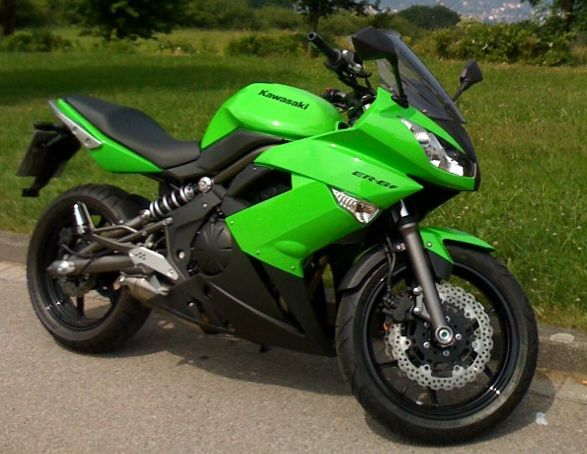 Kawasaki Ninja 650R aka ER-6f